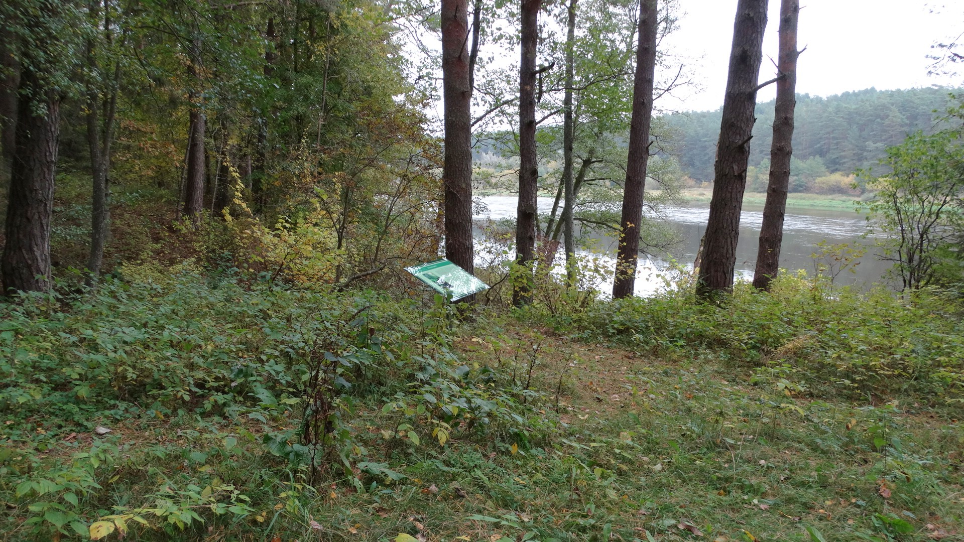 Druskelė Spring, information board, Balkasodis, Alytus district, Lithuania